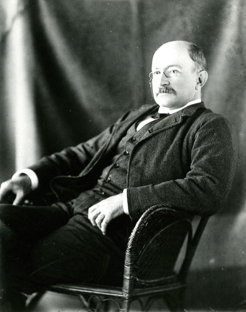 Photograph of John Quincy Adams II (1833-1894), son of Charles Francis Adams, 19th century. On exhibit in the Memorial Room of the Old House.